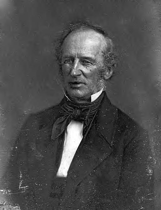 Cornelius Vanderbilt I (1794-1877)